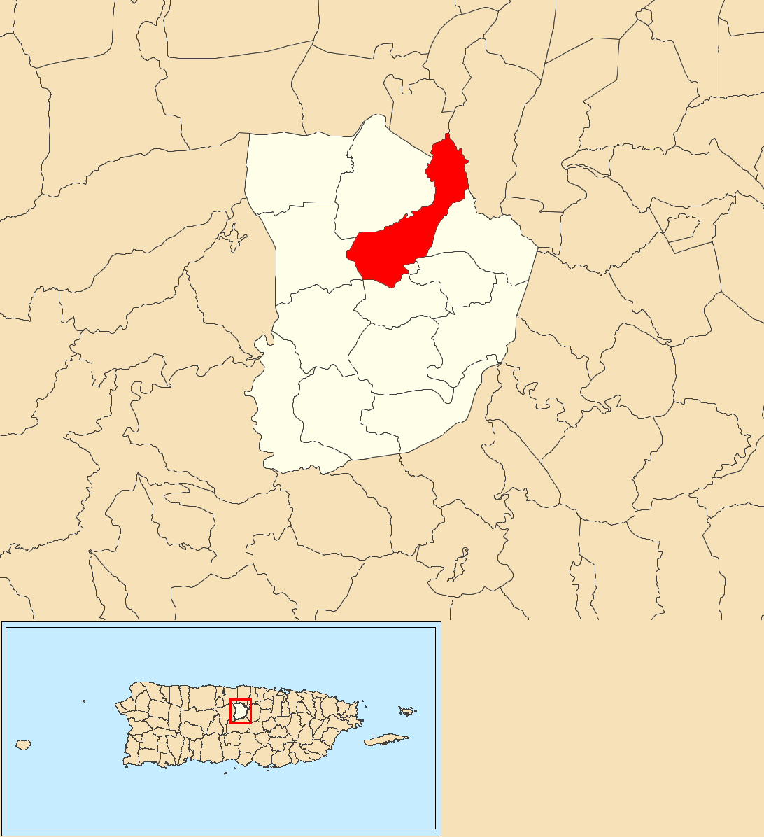 Morovis Norte, Morovis, Puerto Rico locator map